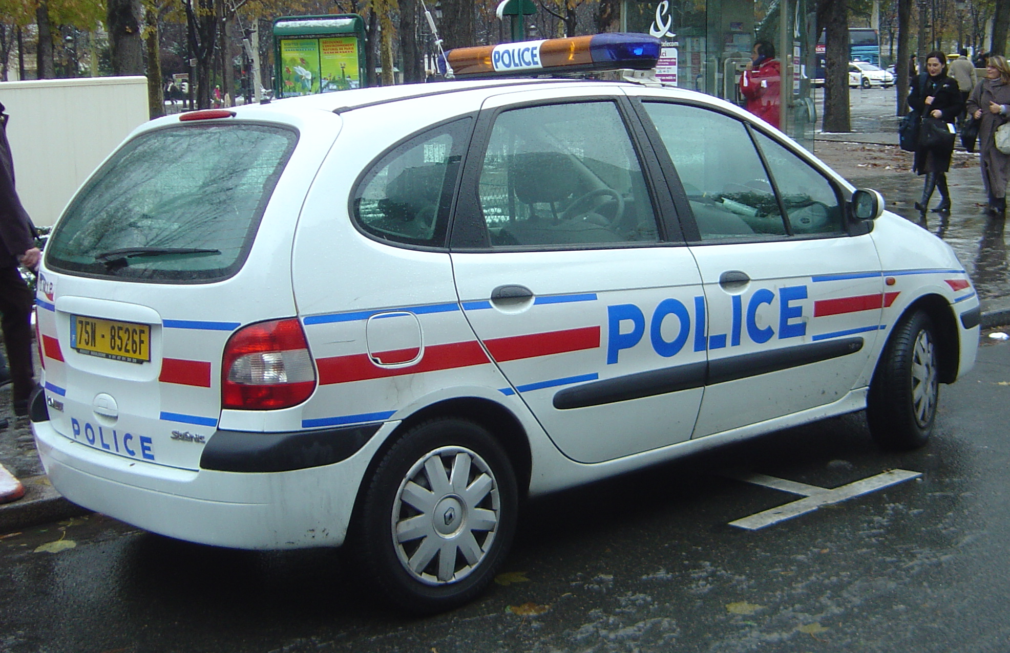 French National Police forces in front of the Grand Palais in Paris, France